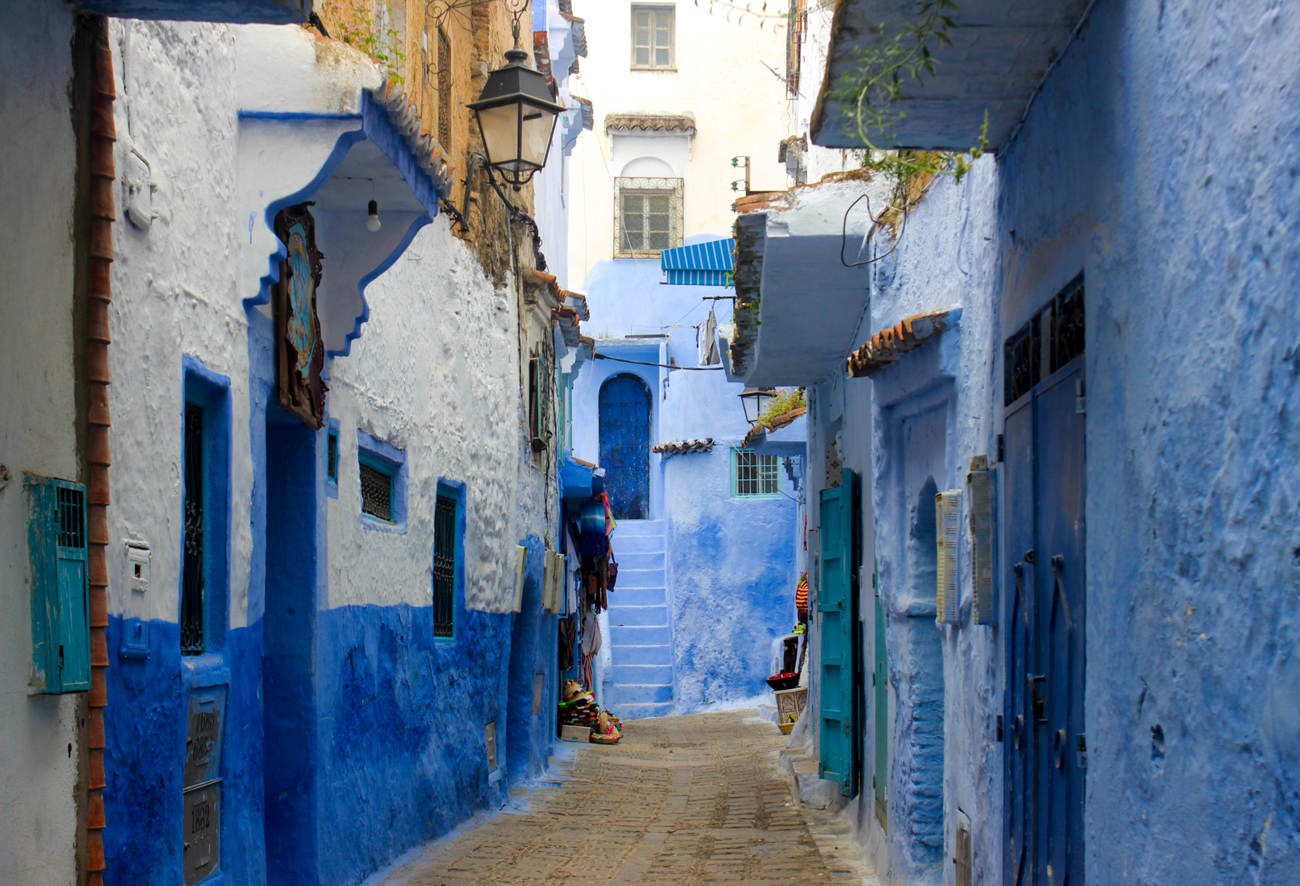 alleyway (Old medina/Medina quarter of Chefchaouen/Chaouen)